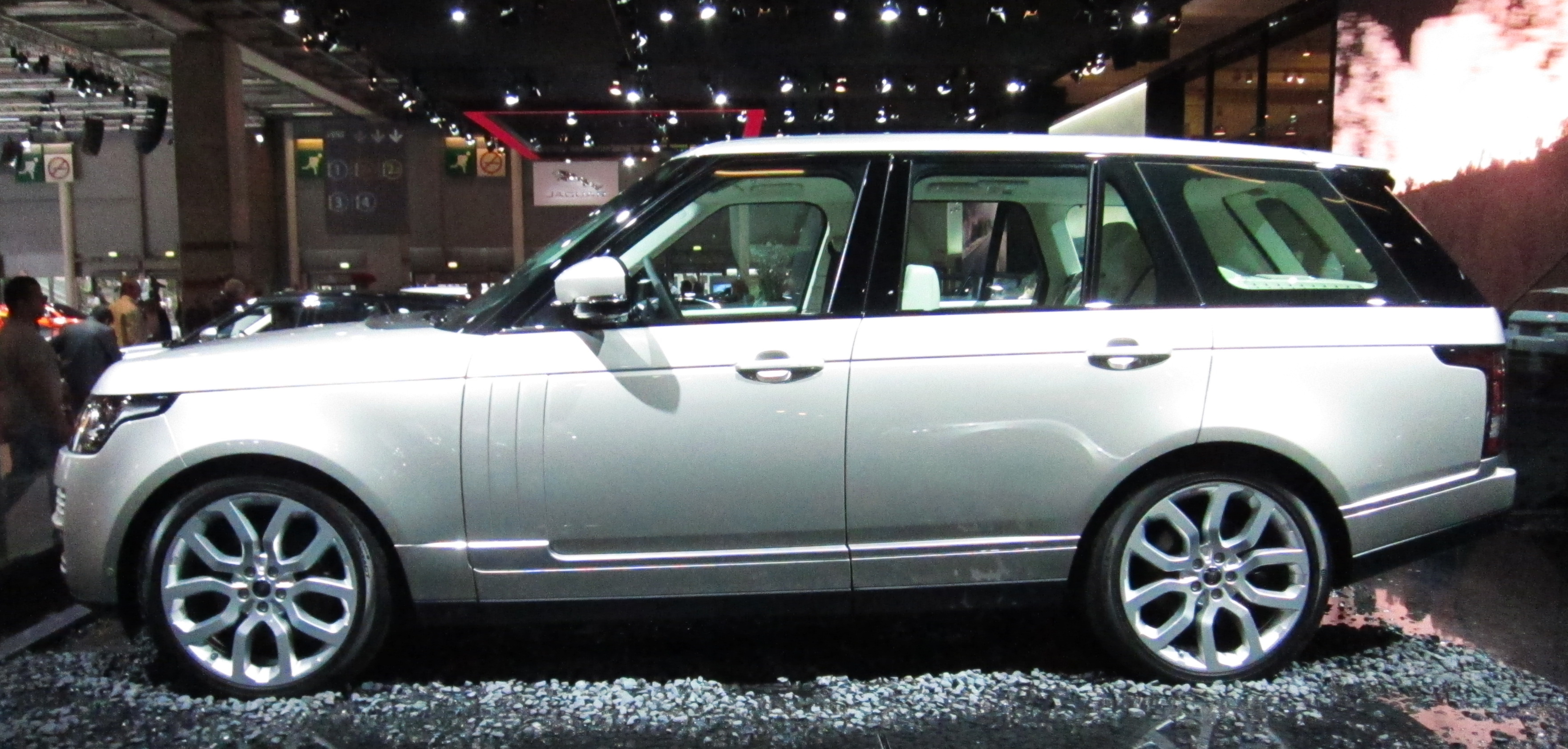 Range Rover IV at Mondial de l'Automobile Paris 2012